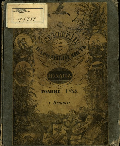 Serbski narodni list